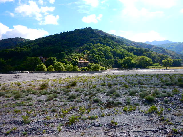 Frascianida, a district of Fondachelli Fantina.Sicily